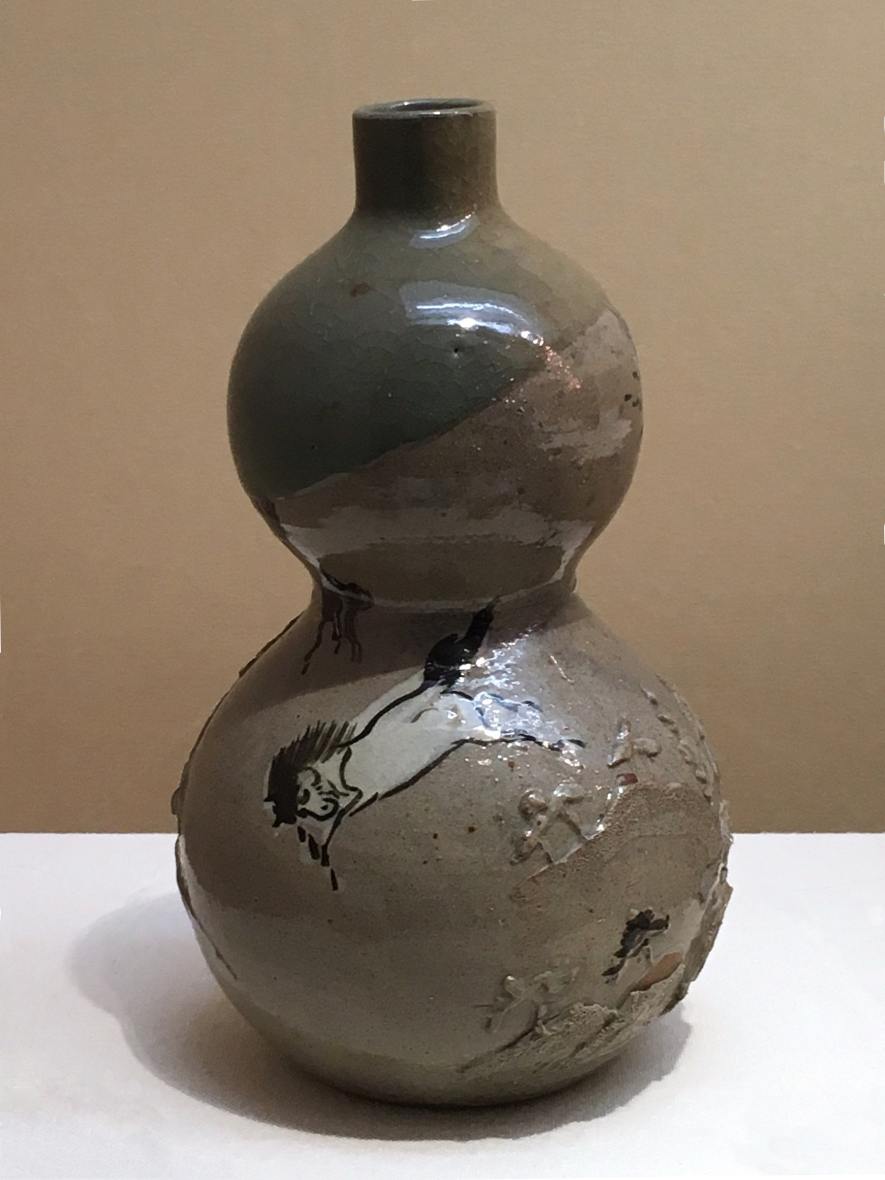 Gourd-shaped bottle, horse design. Sōma ware. Edo period, 18-19th century. Height: 30.6 cm Mouth Diameter: 4.4 cm Diameter: 18.1 cm Other: 10.4（bottom diameter）